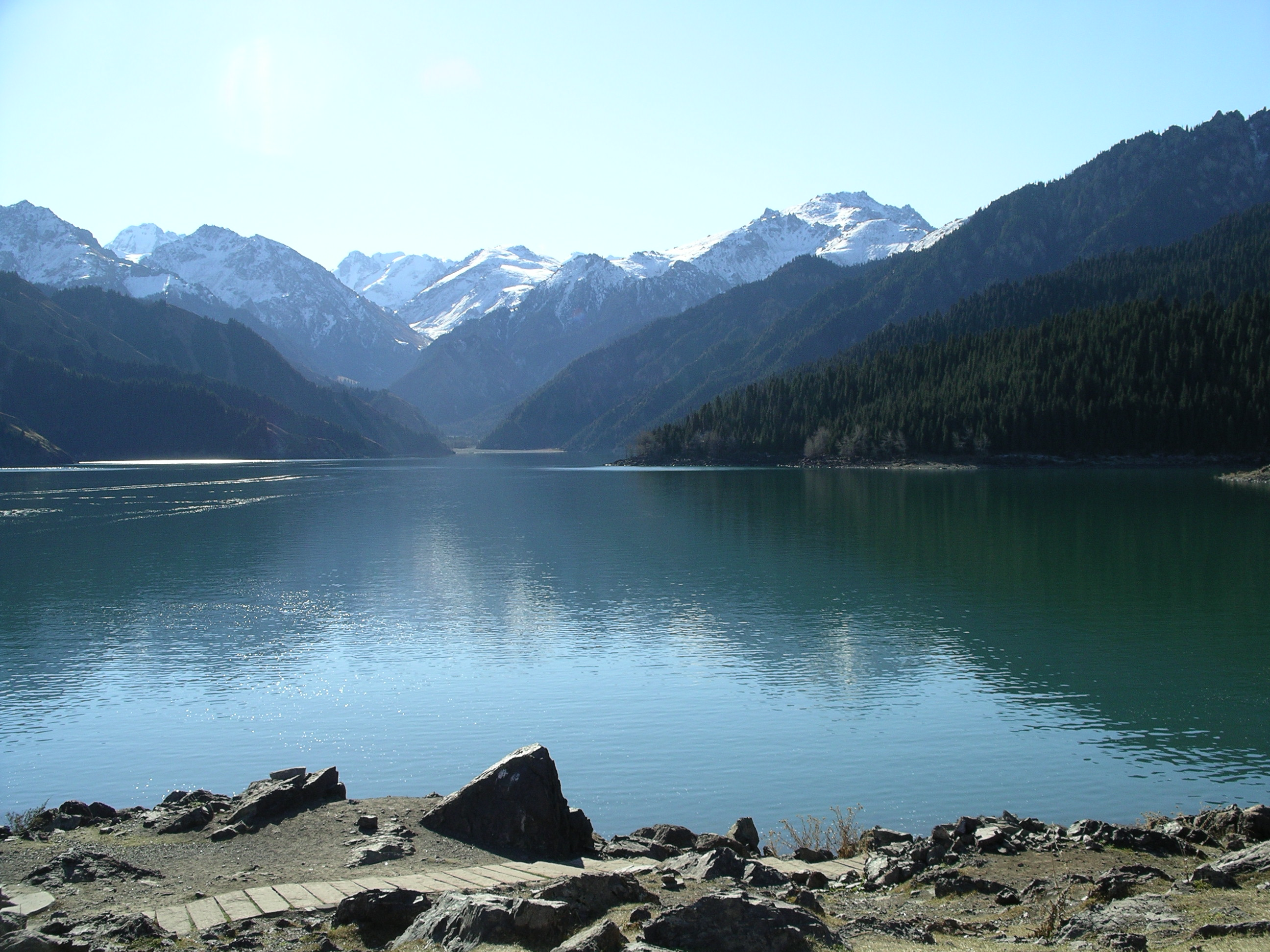 Heaven Lake in China. From Flickr gallery. (Uploaded to Flickr on November 30, 2005 by "tsc_traveler".